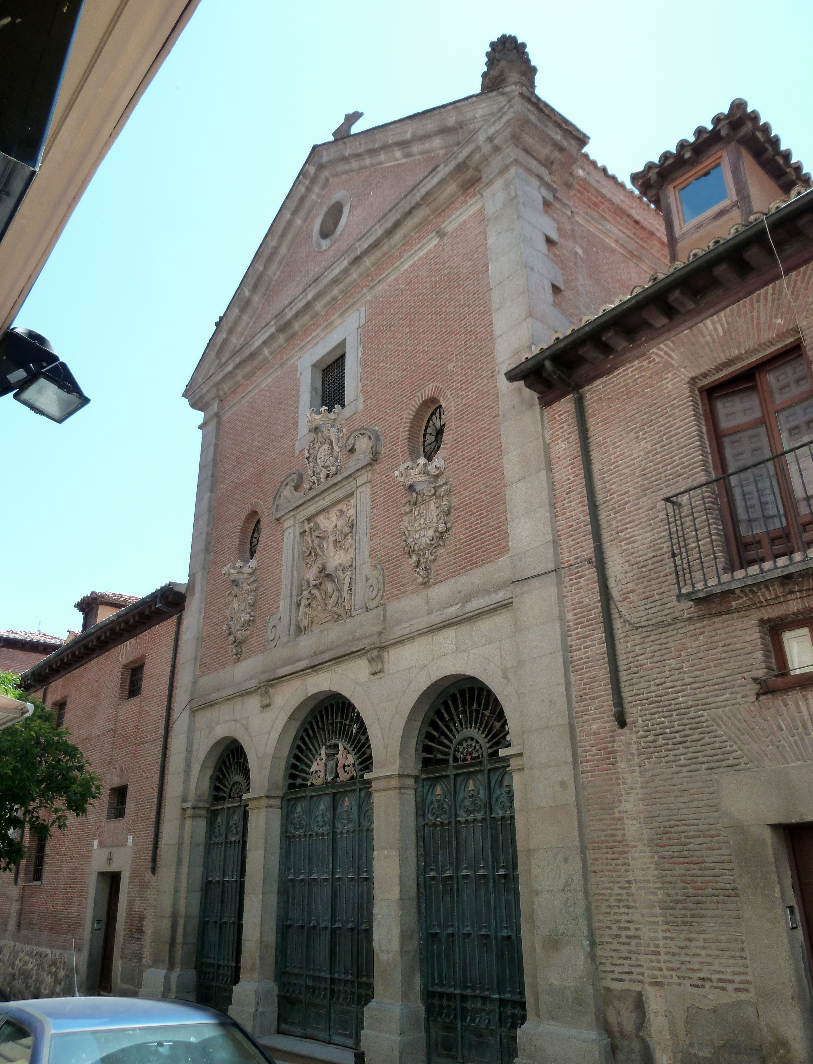 Church of Convento de las Trinitarias Descalzas (a convent) in Madrid (Spain).